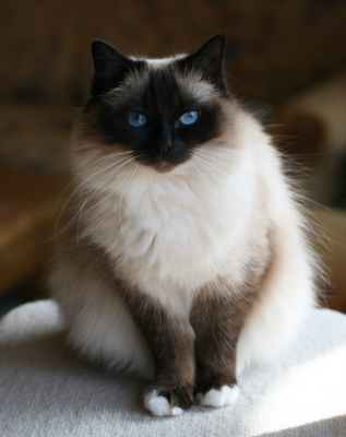 Sacred Birman Cat seal-point, D*Cyrielle's Yosie